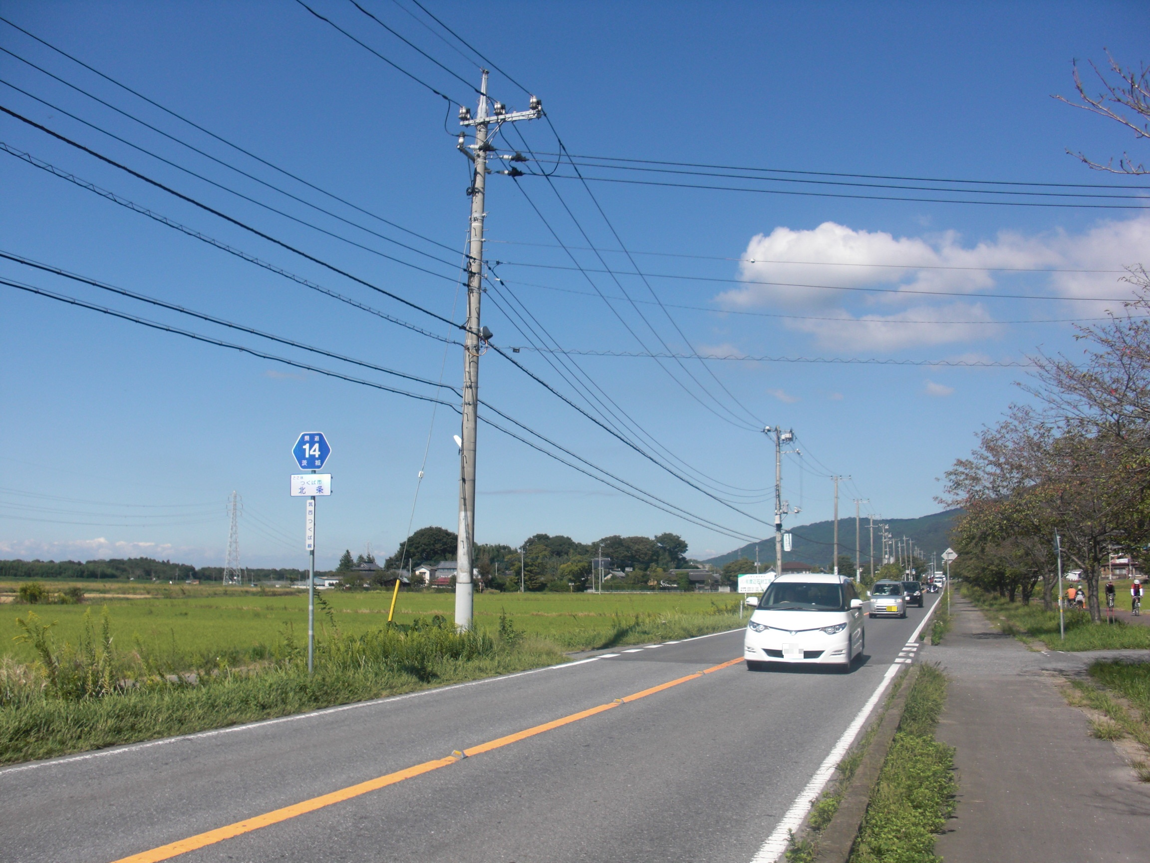 This is a landscape of Ibaraki prefectural road No. 14 Chikusei Tsukuba Line at Hojo, Tsukuba, Ibaraki, Japan.